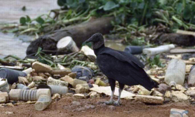 [American] Black Vulture